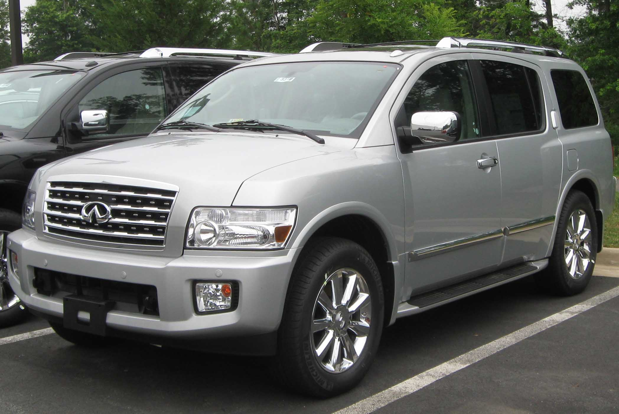 2010 Infiniti QX56 photographed in Chantilly, Virginia, USA.